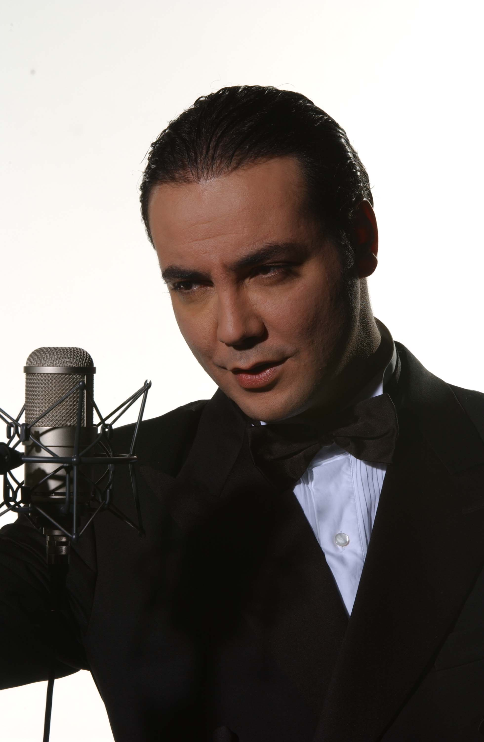 The New Nightingale